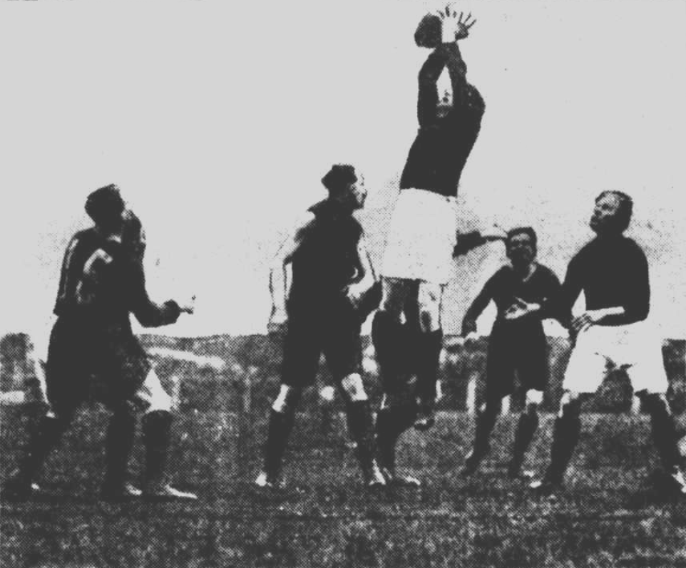 Original Caption: "McCarthy (Essendon) has it all his own way in the Essendon-Melbourne match."